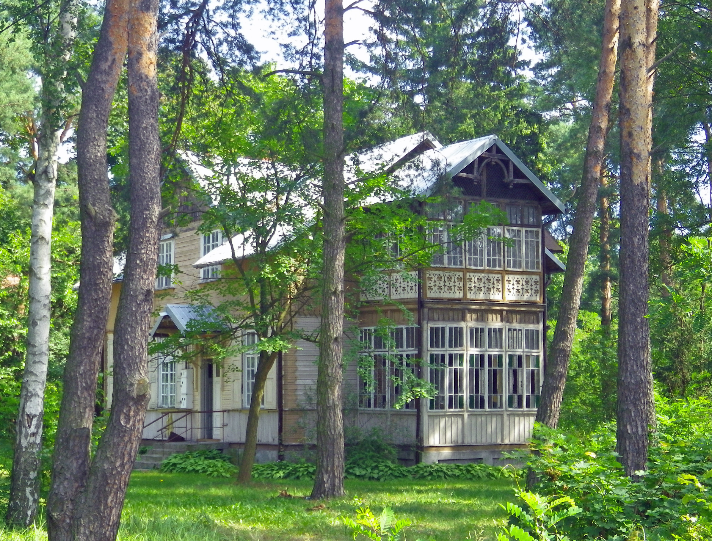 House in so called świdermajer style in Józefów (Poland, Lower Masovian Voivodeship), corner of Ejsmond St and Wyszyński St, year 2012